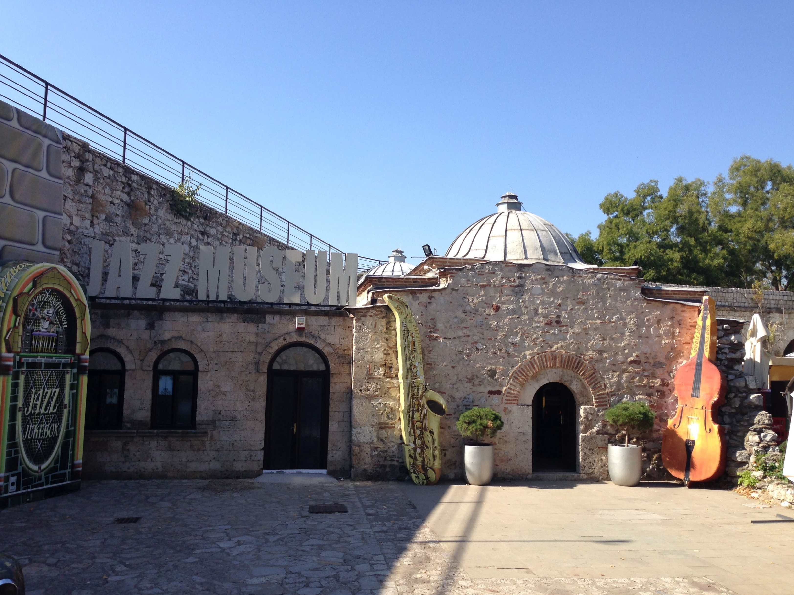 Nisville Jazz Museum.